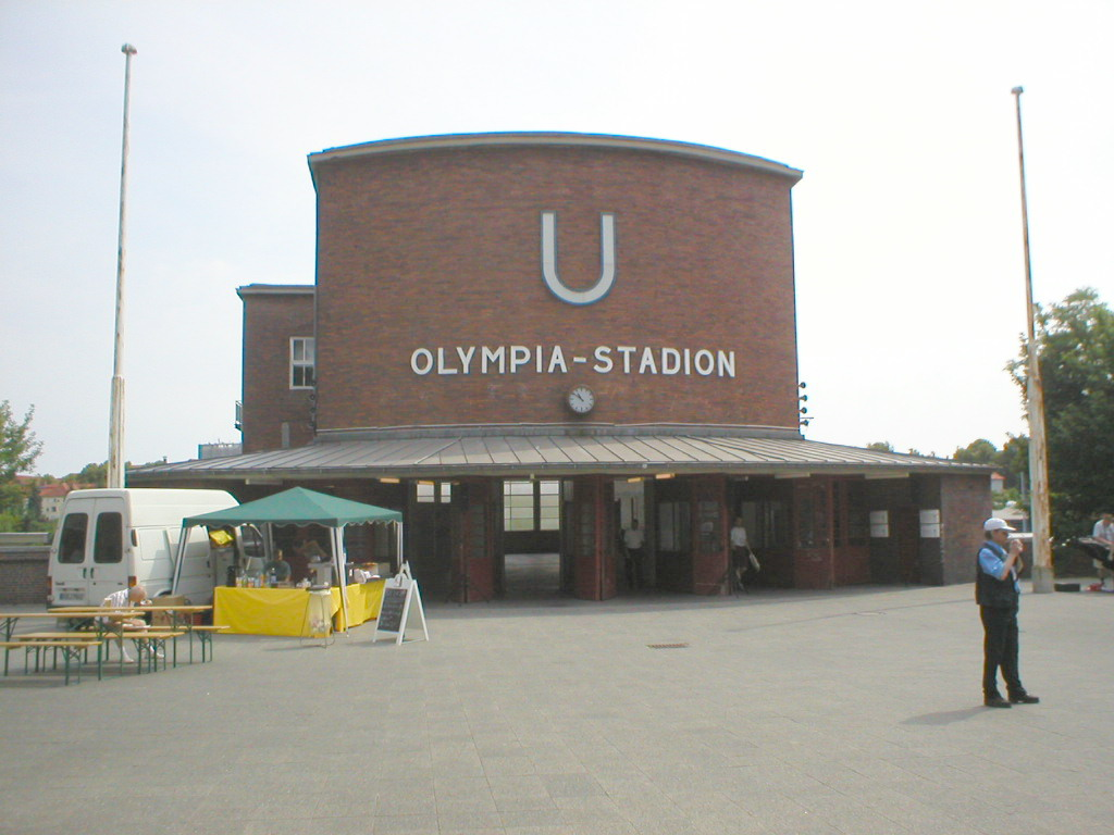 Berlin U-Bahn station "Olympiastadion"